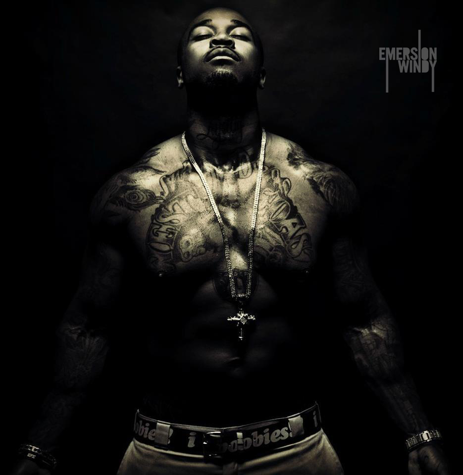 West Coast Hip Hop Artist Emerson Windy